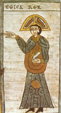 Egica